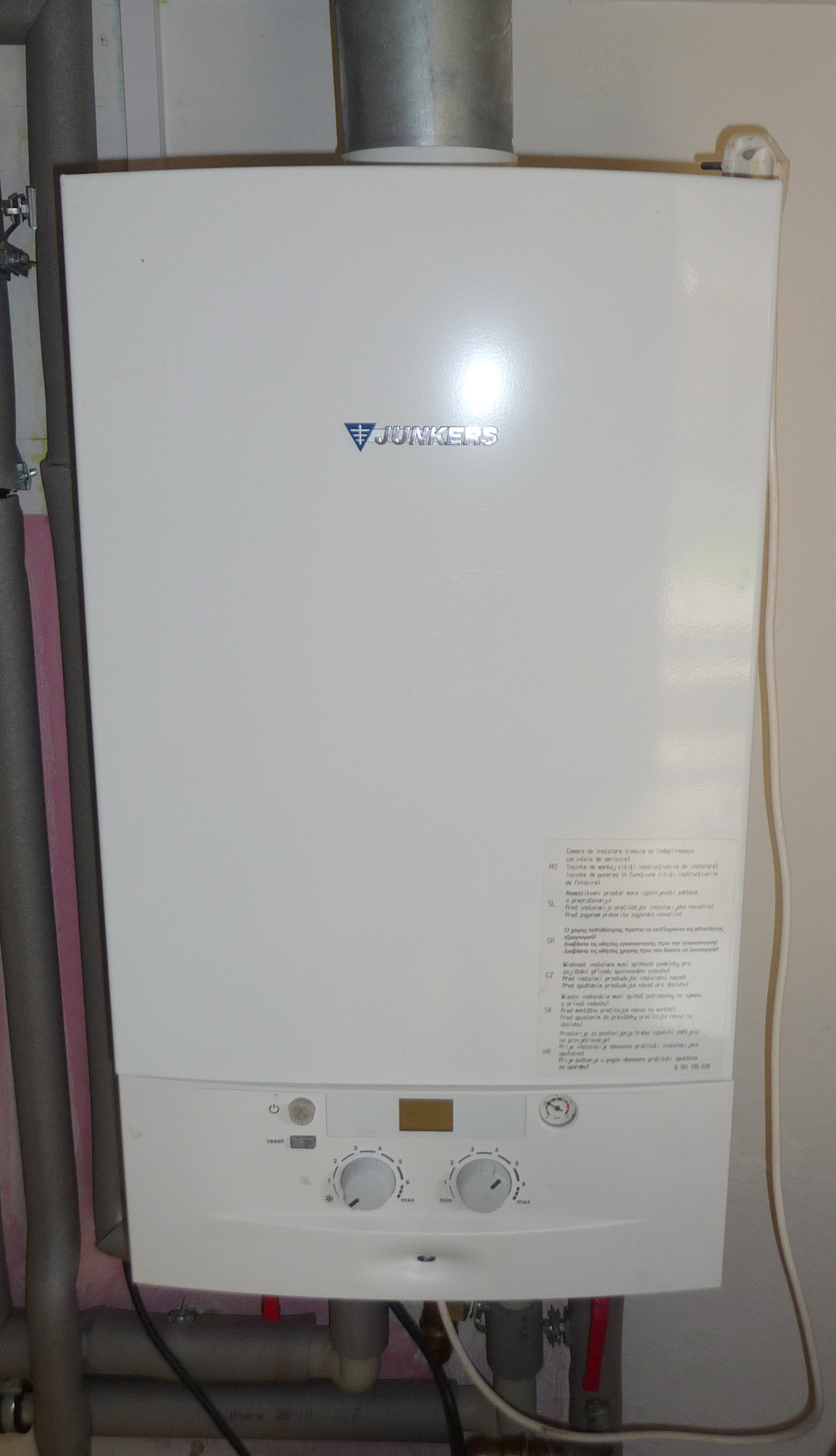 Gas boiler Junkers